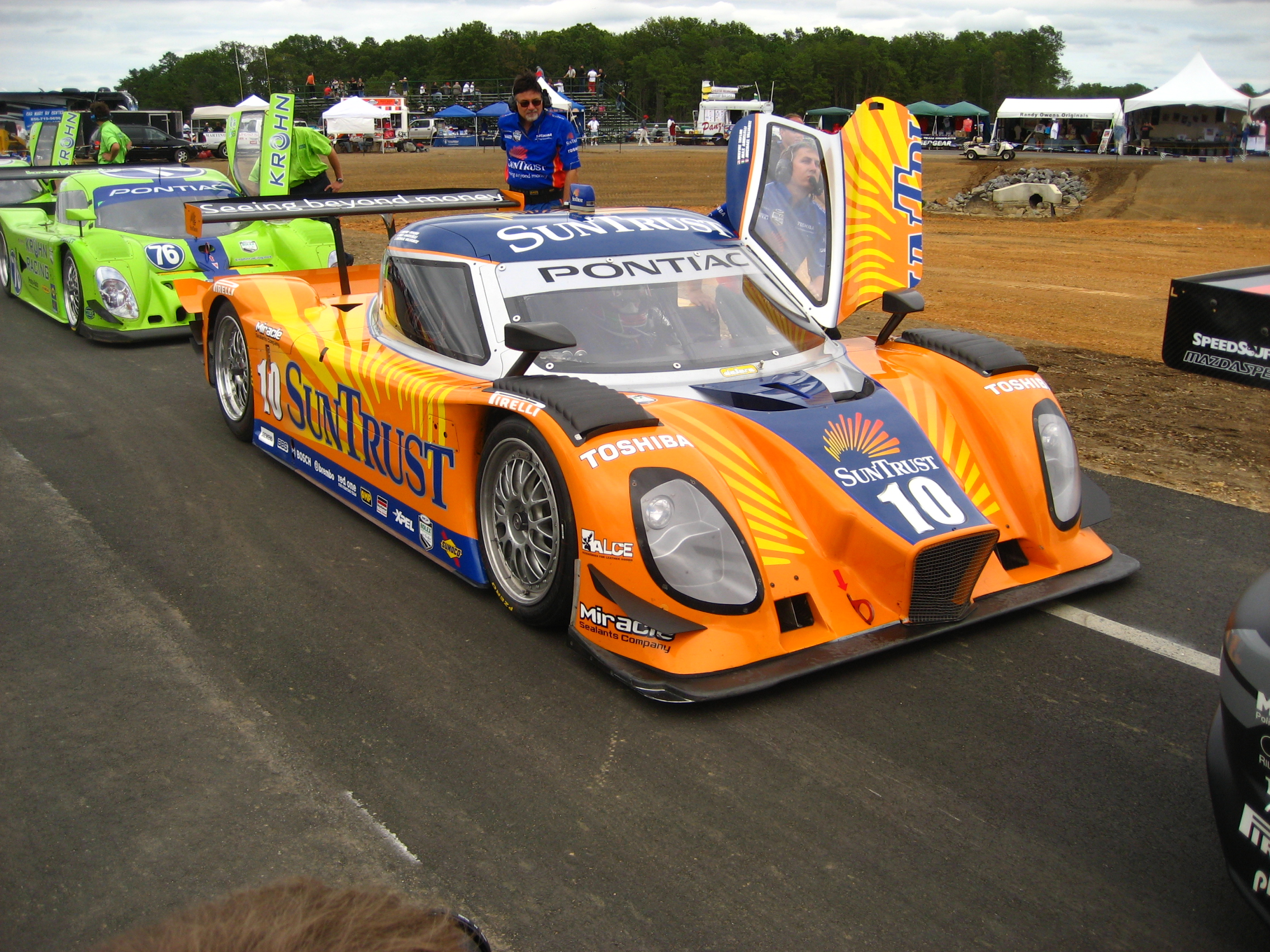 SunTrust Racing's Dallara-Pontiac at the 2008 Supercar Life 250 at New Jersey Motorsports Park.